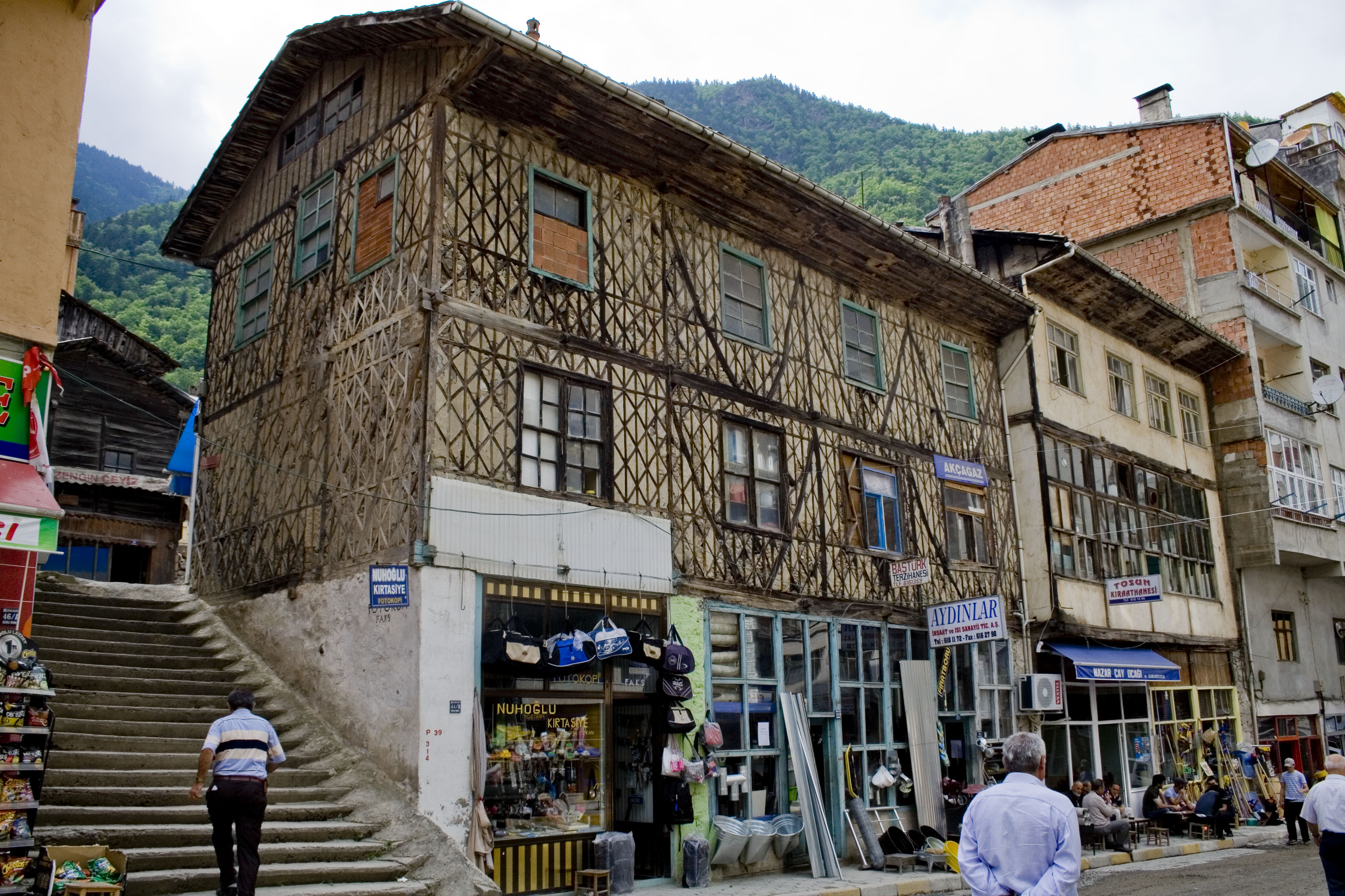 Old house in Çaykara, Trabzon